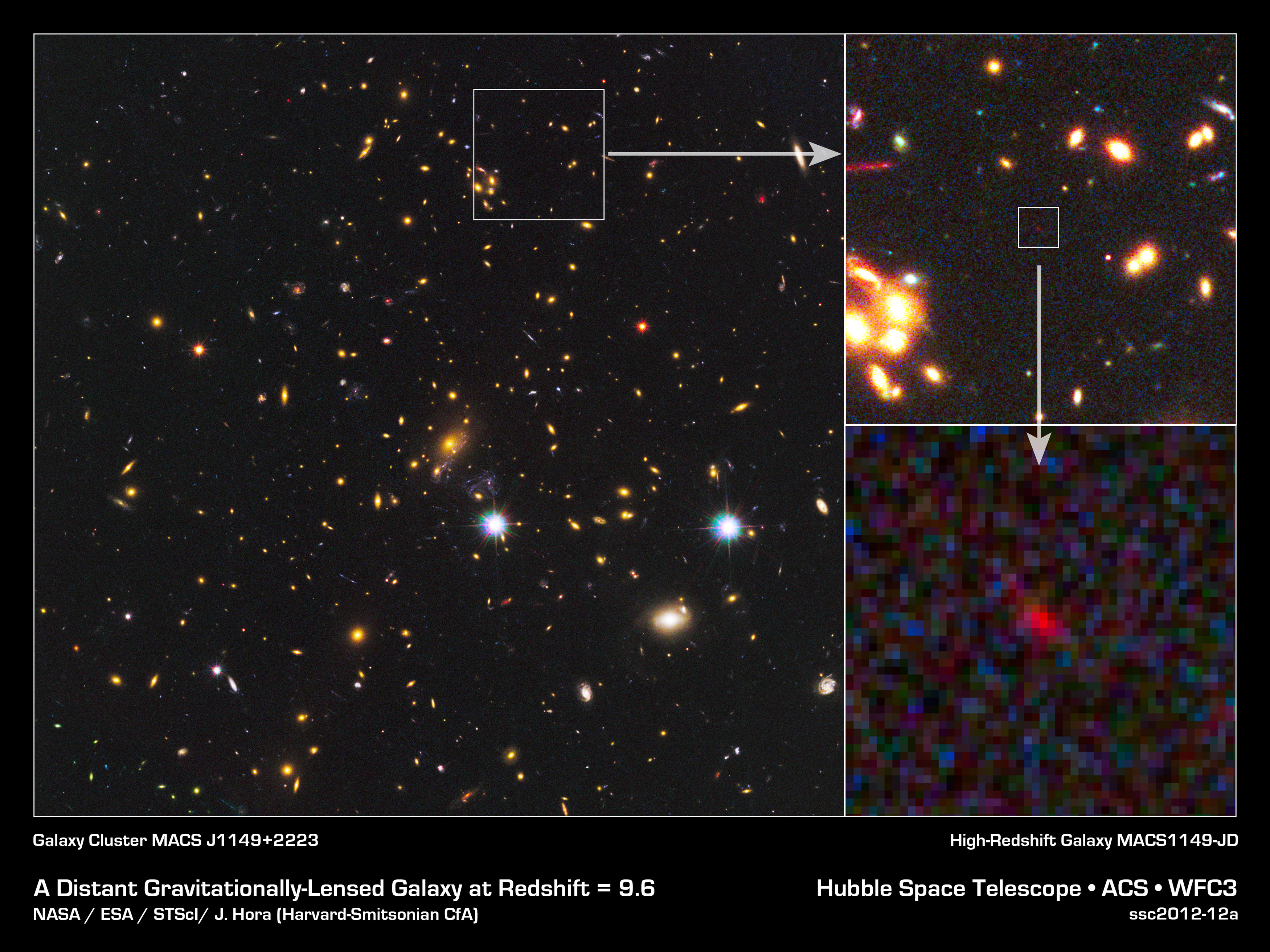 This the image of the farthest galaxy MACS 1149-JD from the ancient past taken from NASA's Spitzer and Hubble space telescopes.